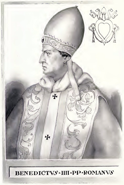 This illustration is from The Lives and Times of the Popes by Chevalier Artaud de Montor, New York: The Catholic Publication Society of America, 1911. It was originally published in 1842.